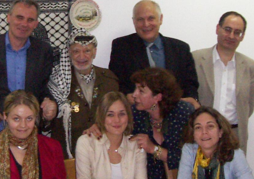 An International Media Council Delegation, the last group to meet Arafat shortly before his death in November 2004. Top Row: McAskill of the Guardian, Arafat, Morris of the Media Council, Peter David of the Economist. Bottom Row: Kinninmont of the Economist Intelligence Unit, Sallabank then with Janes, Sarraf currently Palestinian Ambassador to Danemark, Roula Khallaf of the Financial Times.